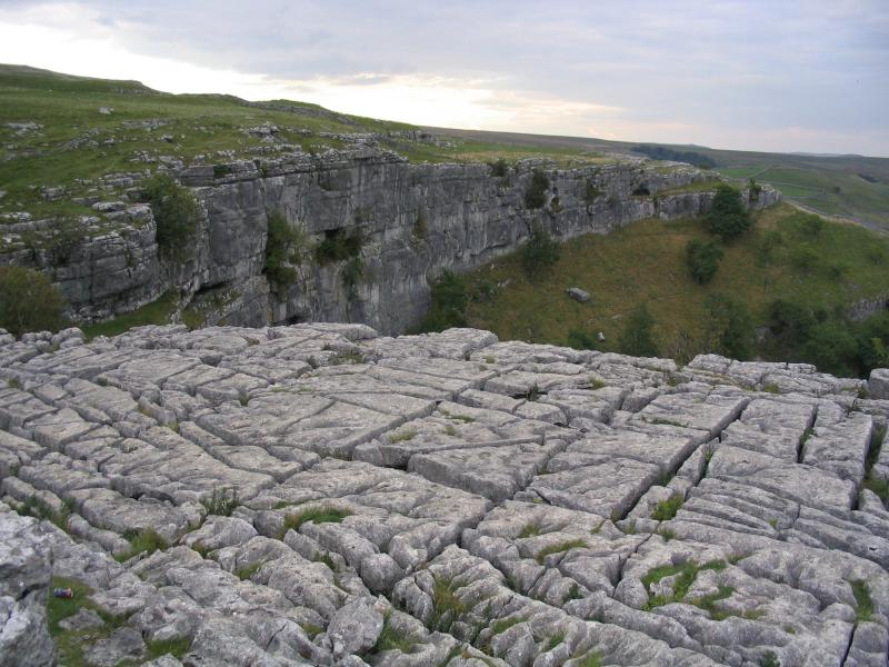 Limestone pavement above Malham Cove in the Yorkshire Dales, taken by Lupin on 3/Nov/2003.